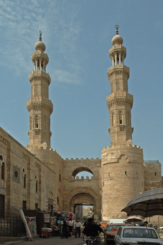 Bab Zuwayla. Cairo. Egypt